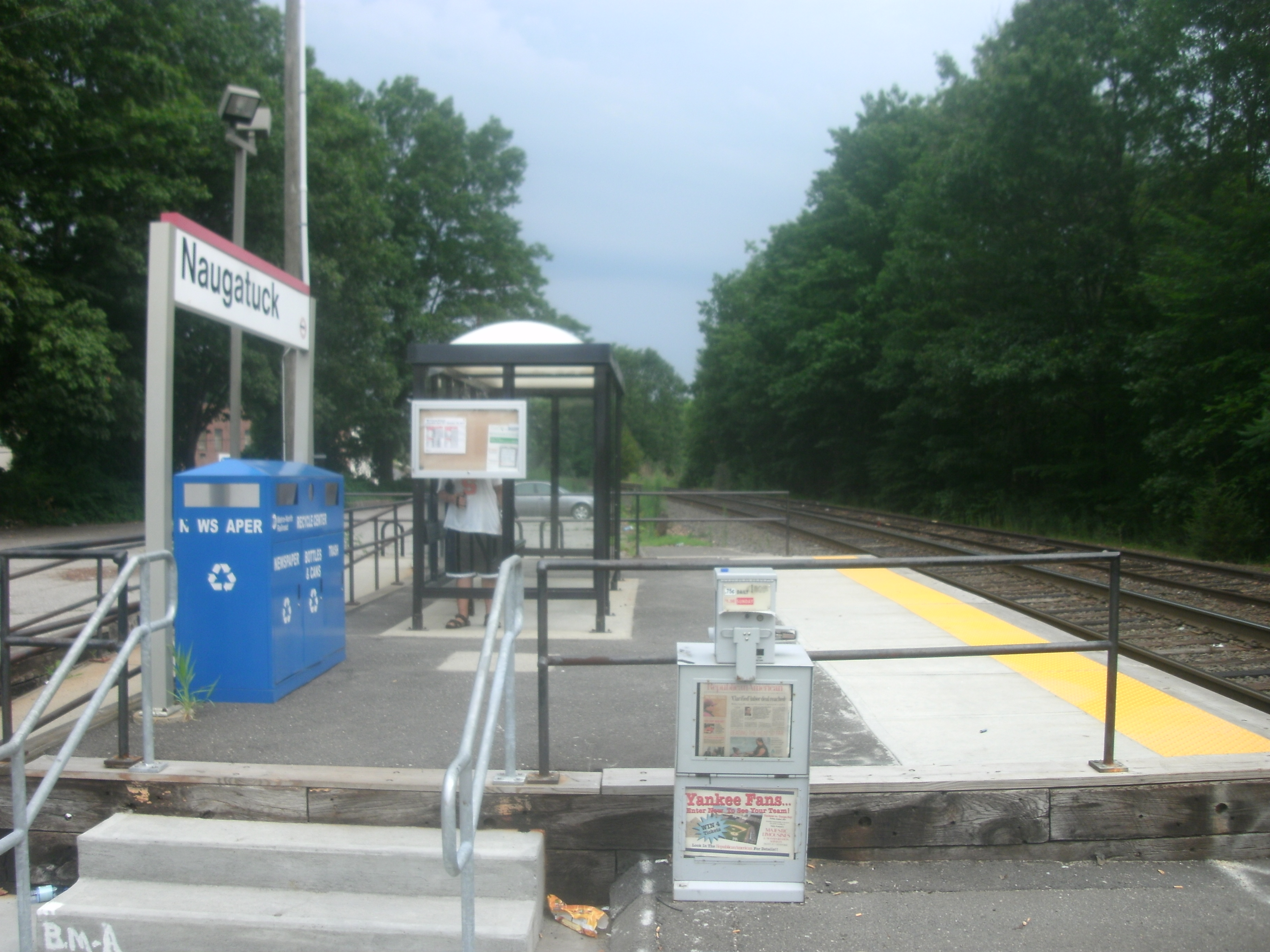 The Metro-North station at Naugatuck, Connecticut as seen in July 2011.